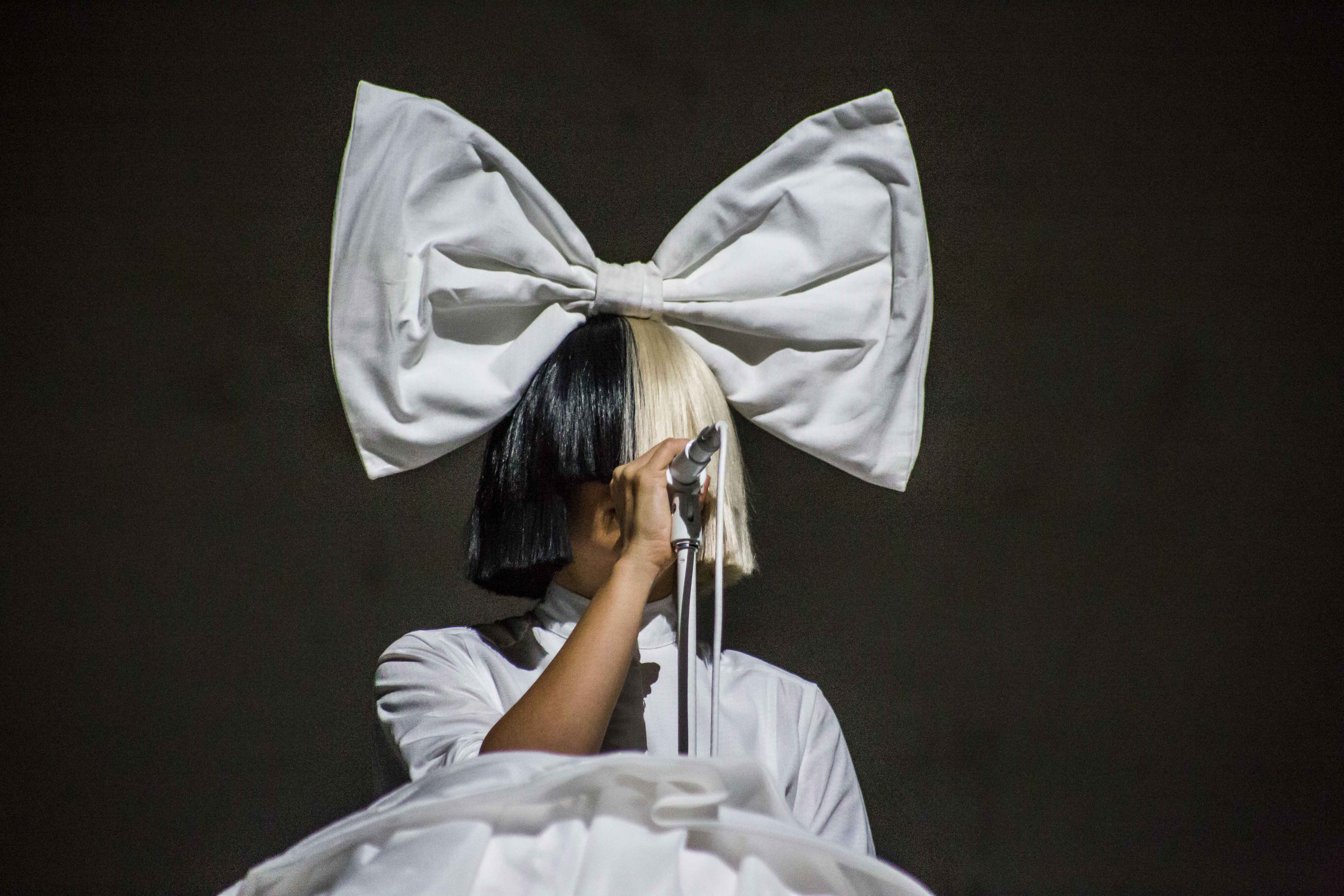 Sia in a live in 2016